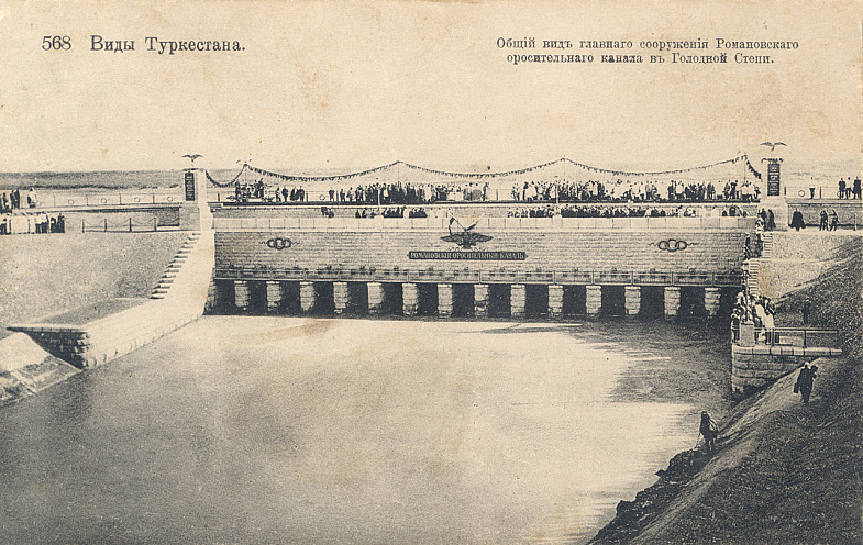 General view of a head construction of the irrigating Romanovsky channel in Hungry steppe